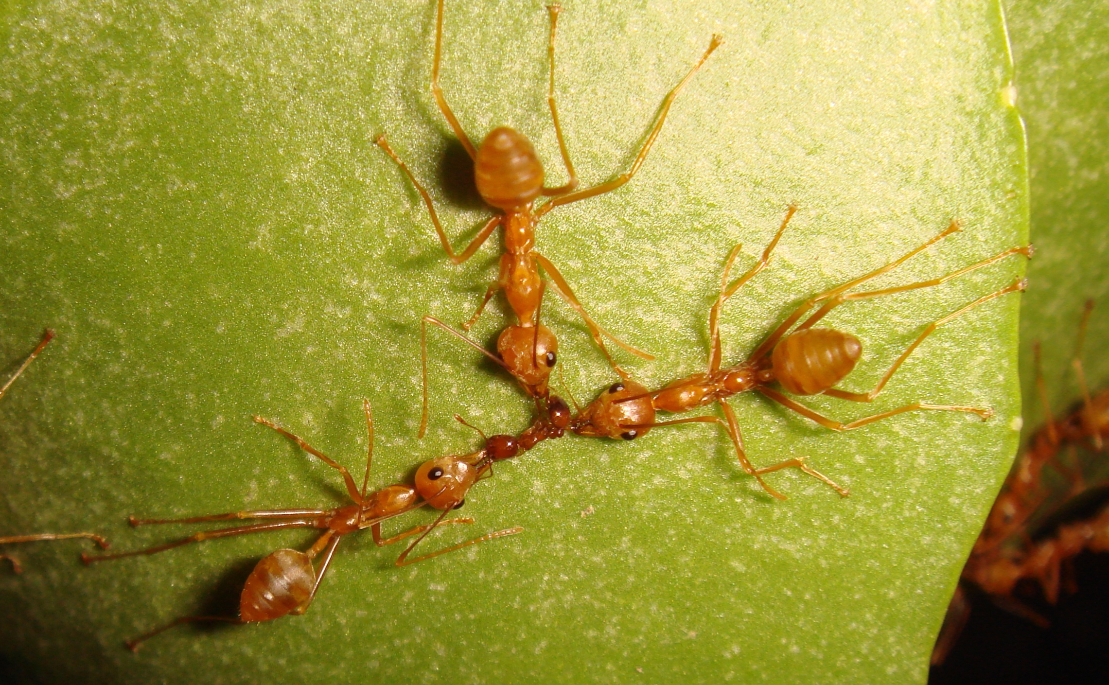 Weaver ants collaborating to dismember a red ant. Pamalican Philippines. (Actual size). The uploader, PHGCOM, is the creator and copyright holder of this photograph. PHGCOM (talk) 03:01, 24 June 2008 (UTC)